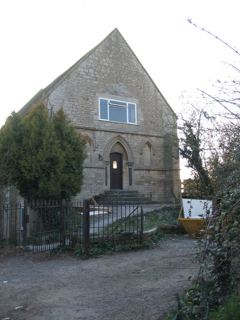 Former chapel at Inglesbatch, Somerset, seen from the northeast